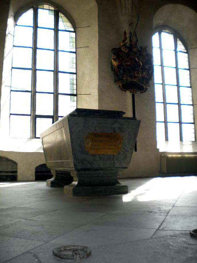 Grave of Hedwig Amalia von Hessenstein (extramarital daughter of King Frederick) in Strängnäs Cathedral, as released by image creator RistessonPlace: Strängnäs, Sweden